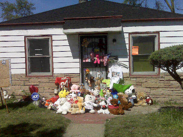 2300 Jackson Street